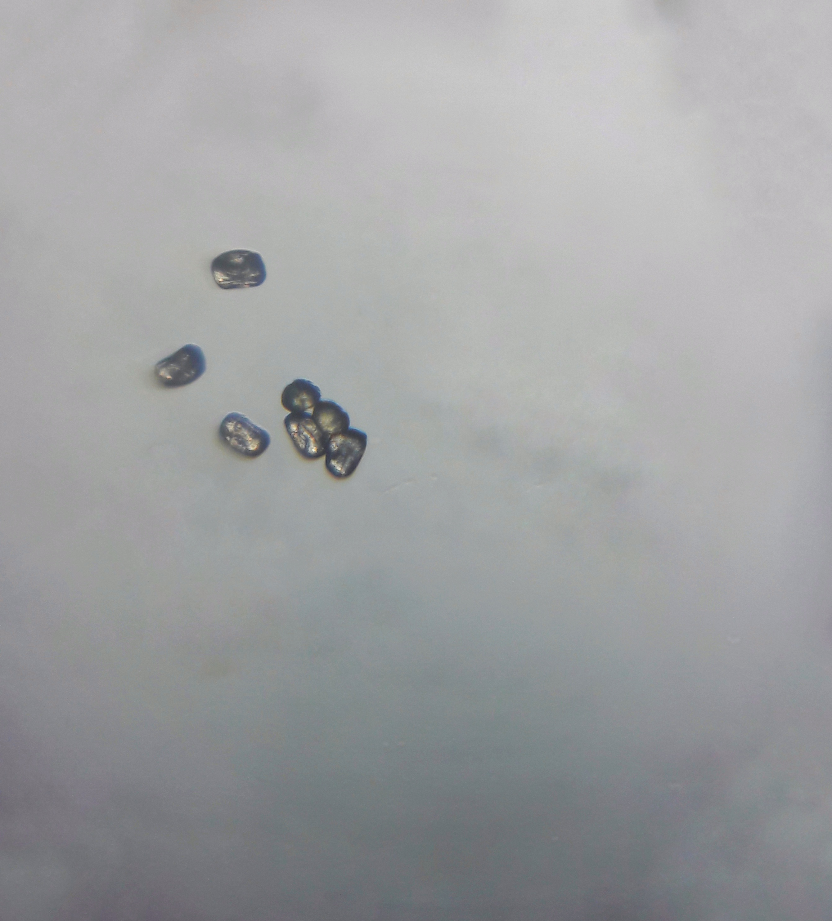 pollen grain of Catharanthus roseus